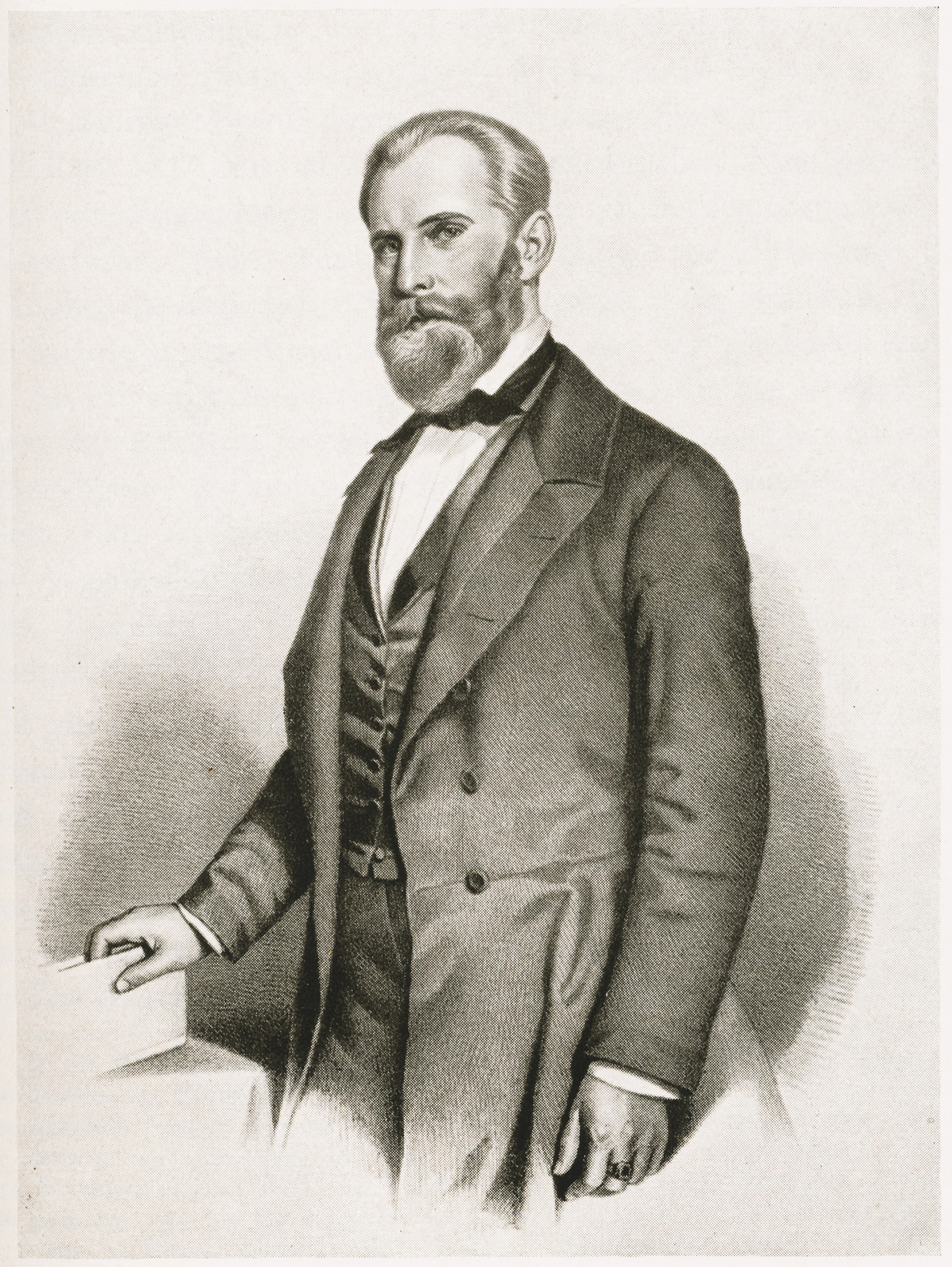 Portrait of Georg Hermann von Meyer (1815–1892)